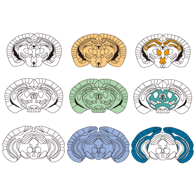 mice brain slice2